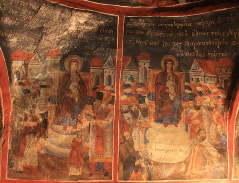 Fresco in Saint Demetrius Church in Mesolouri